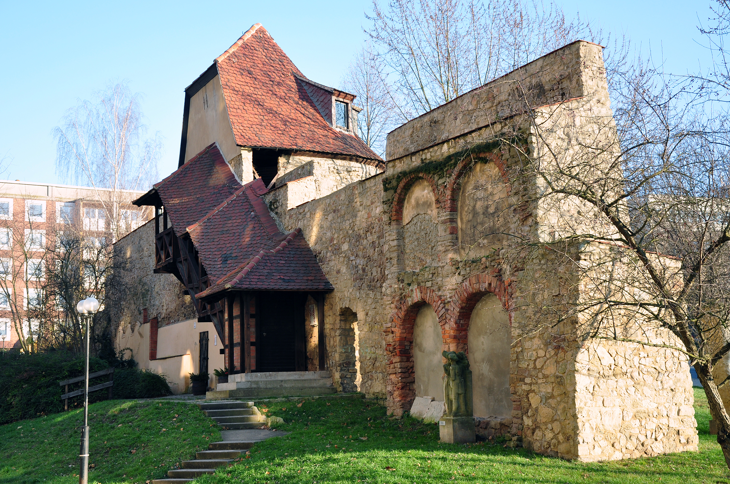 Gera - Remainings of the city wall